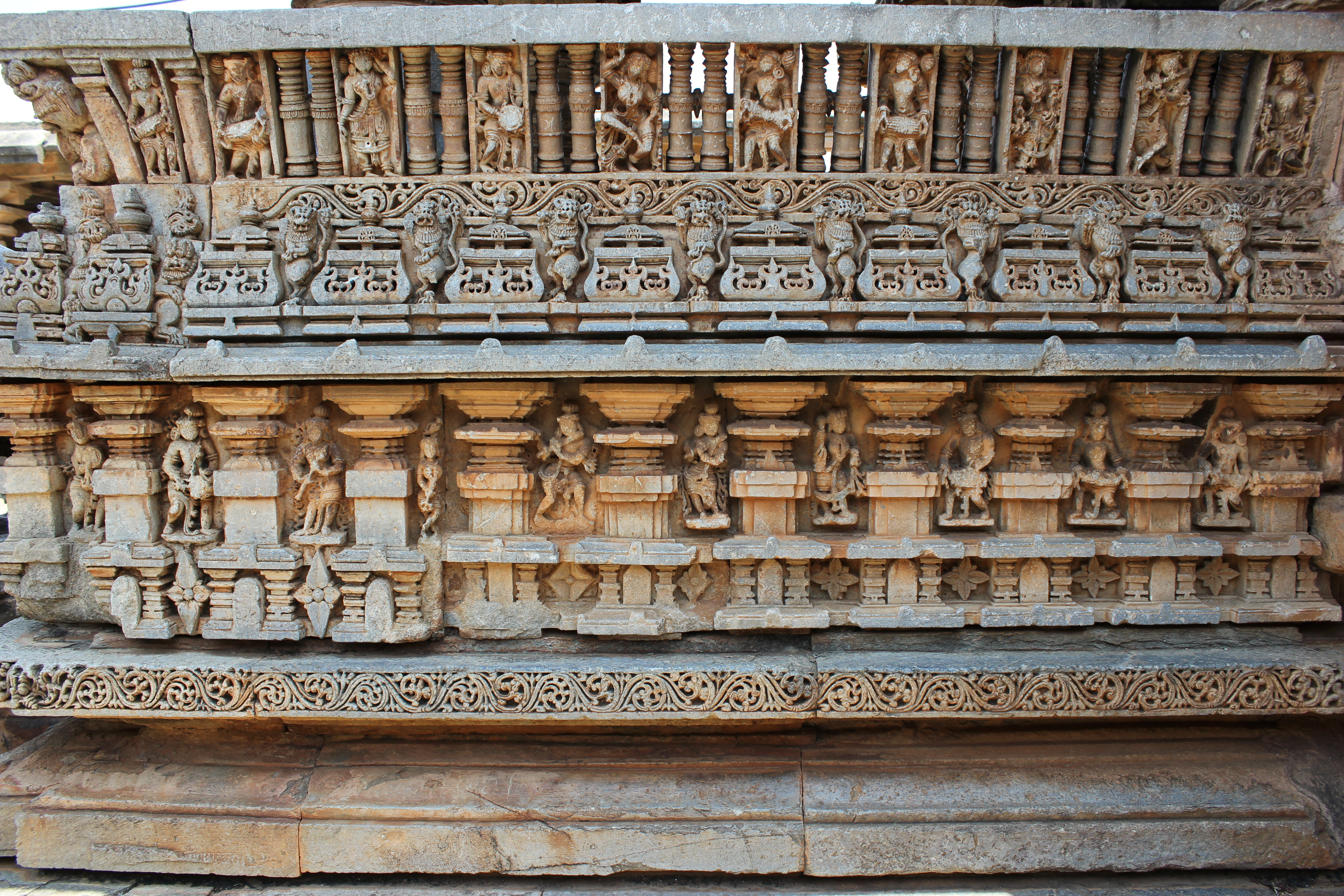 This photo was taken by me (Dinesh Kannambadi) at the Chennakeshava temple (also spelt Chennakesava) in Hullekere, Hassan district, Karnataka state, India. It was built in 1163 CE during the rule of the Hoysala Empire King Narasimha I.